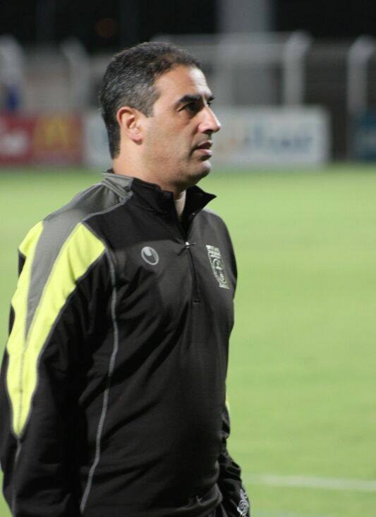 Hicham Jadrane With Fanja Club in a match against Ittihad Club Al Seeb Stadium 21 September 2013 Photographer email id